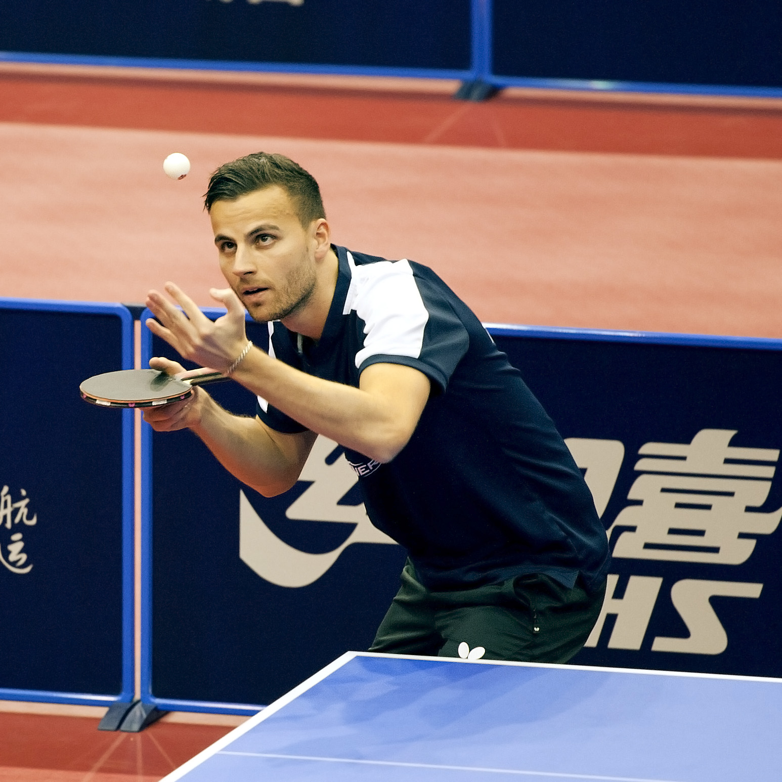 ITTF World Tour 2017 German Open, Magdeburg, Germany, 7 Nov 2017 - 12 Nov 2017, Apolonia Tiago